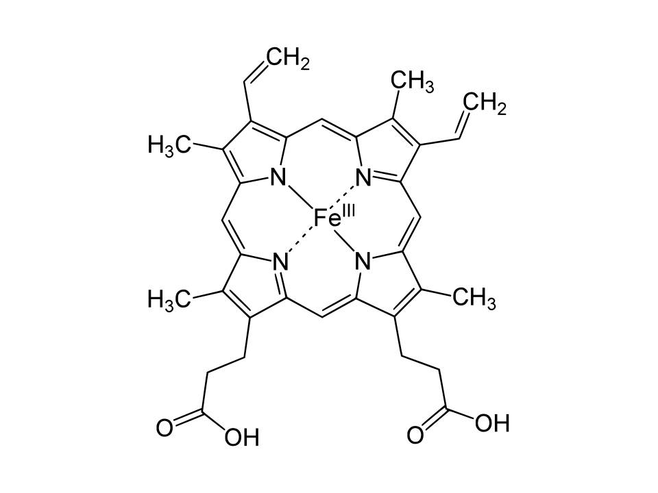 Molecular form of metahemoglobin